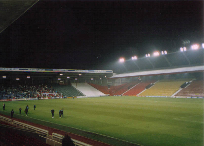 Anfield at night